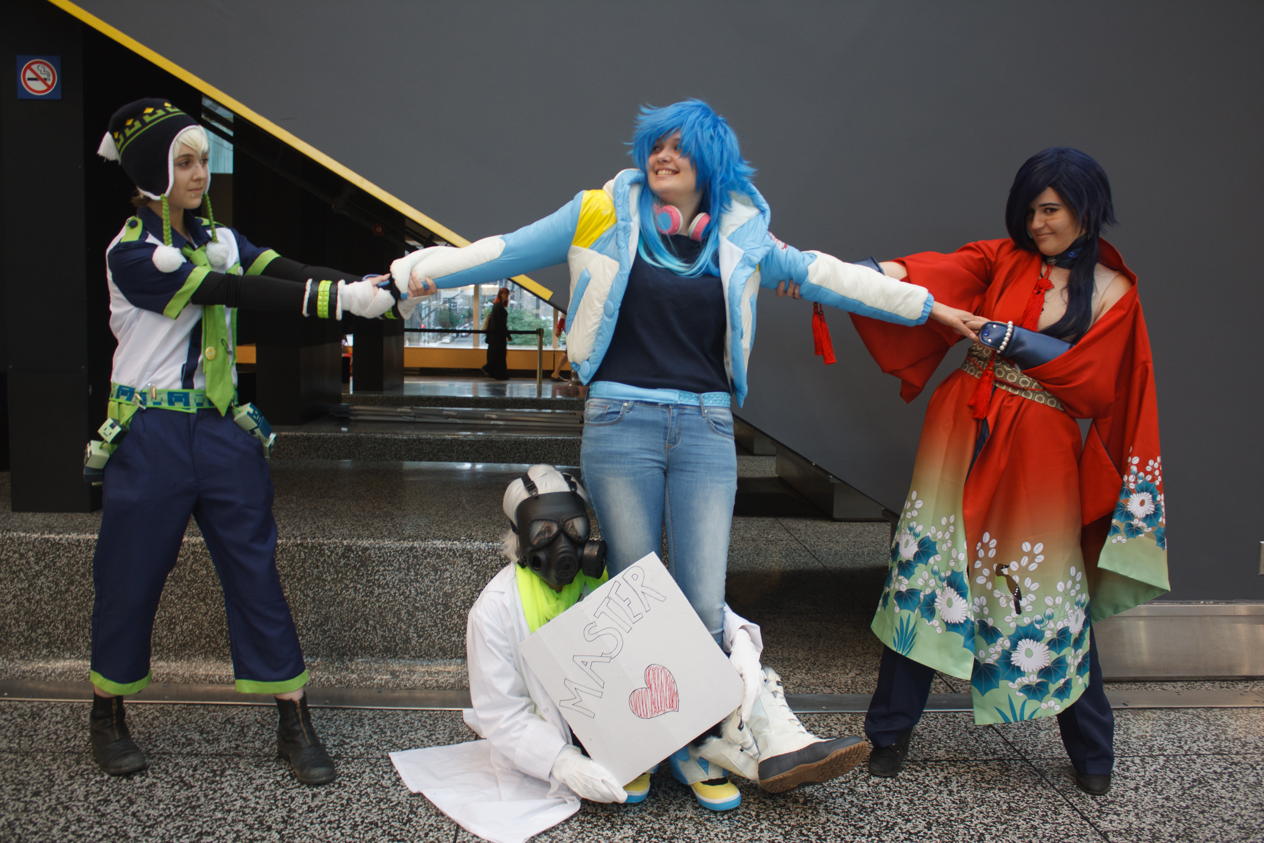 Cosplay on Saturday, day two, of the Montreal Comiccon 2016.